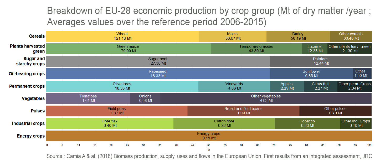 Breakdown of EU-28 economic production ; crops by crop group | expressed in Mt of dry matter per year. Averages values over the reference period 2006-2015